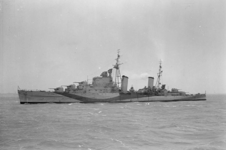 Photograph of British light cruiser HMS Sirius, underway leaving Portsmouth.